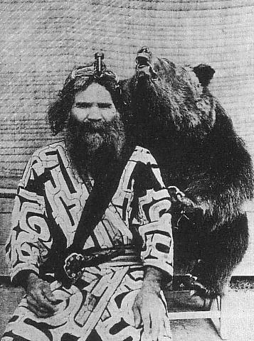 One Ainu man and bear